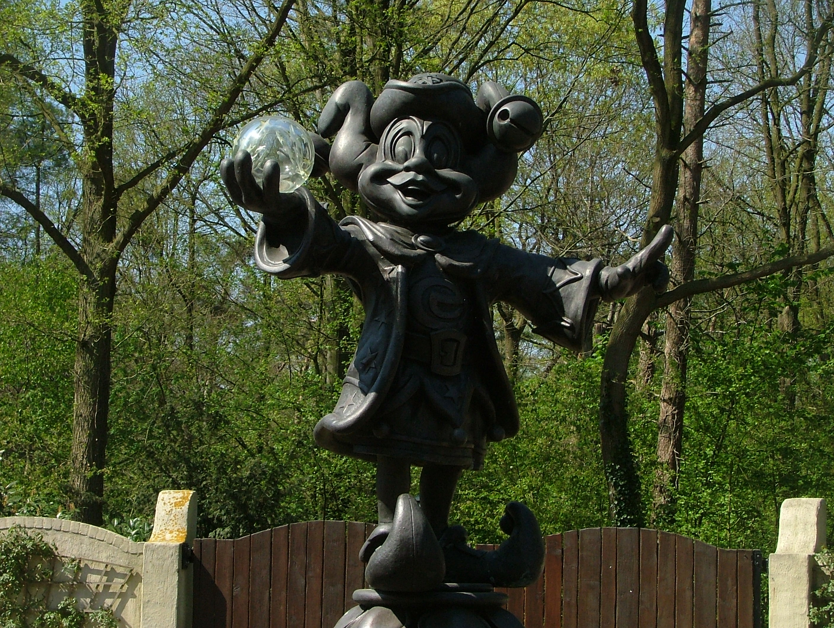 Statue of Pardoes